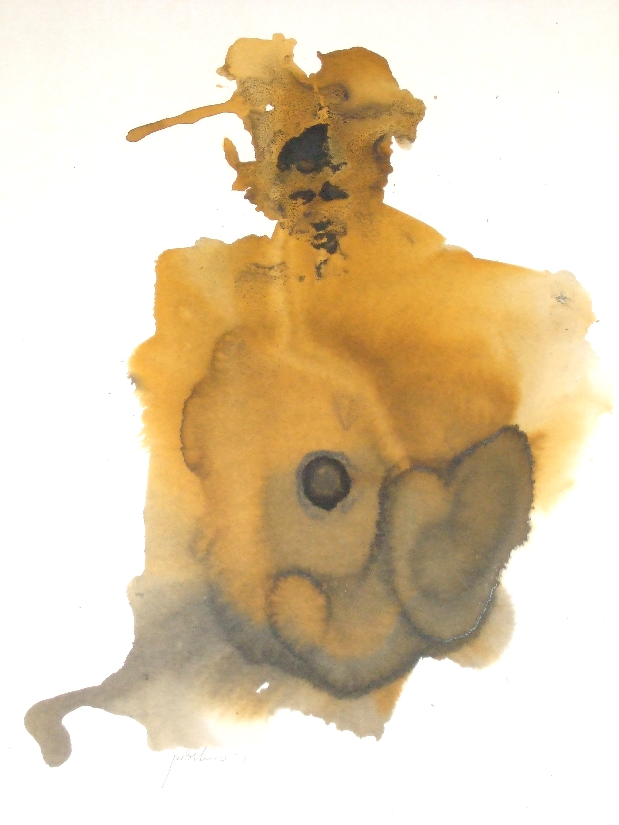 Artwork of Carmit Weizman